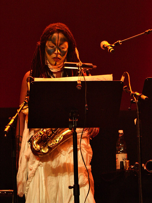 Matana Roberts at moers festival 2006 own photo, june 4, 2006- photo: nomo/michael hoefner